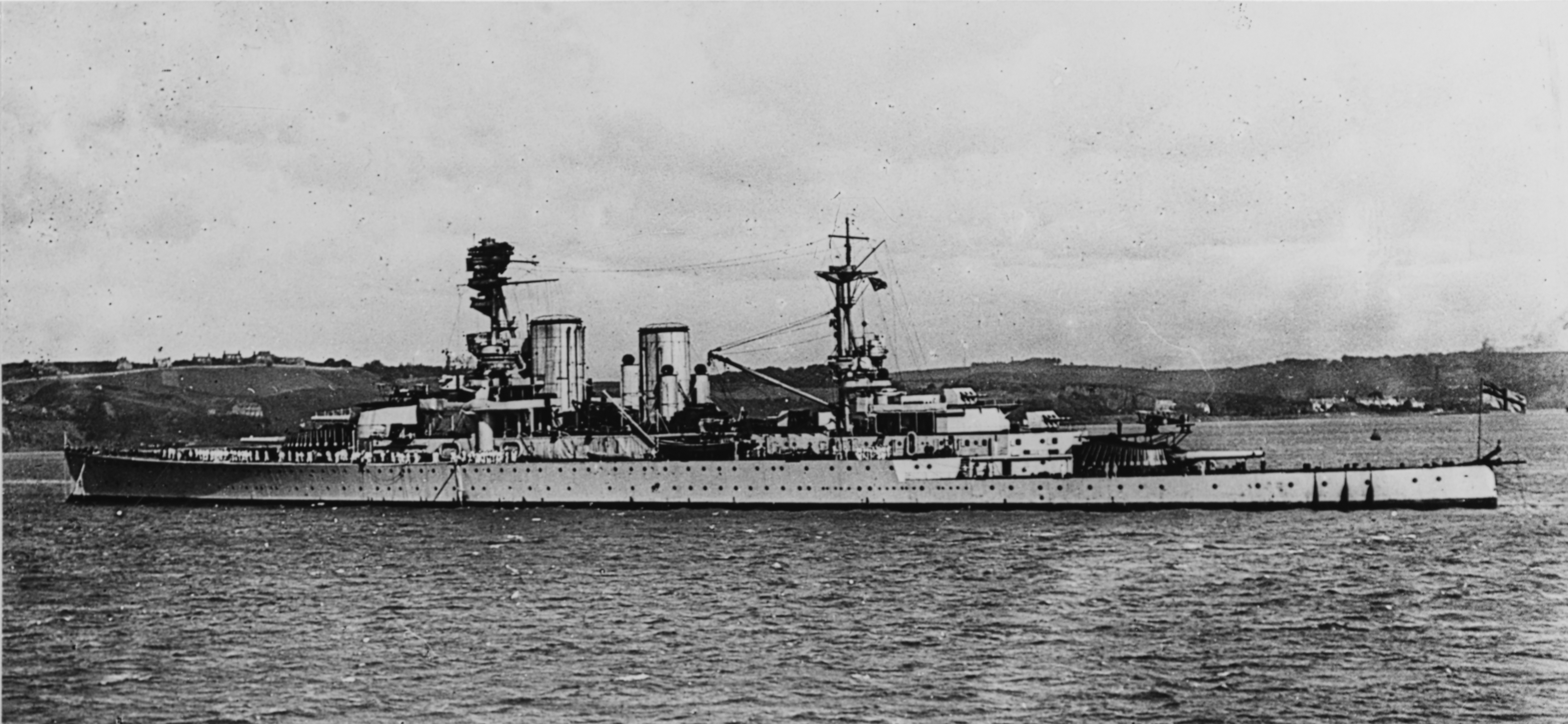 The Royal Navy battlecruiser HMS Renown during World War I, probably in 1918. Note the training scales painted on A and Y turrets and the aircraft atop B and Y turrets.